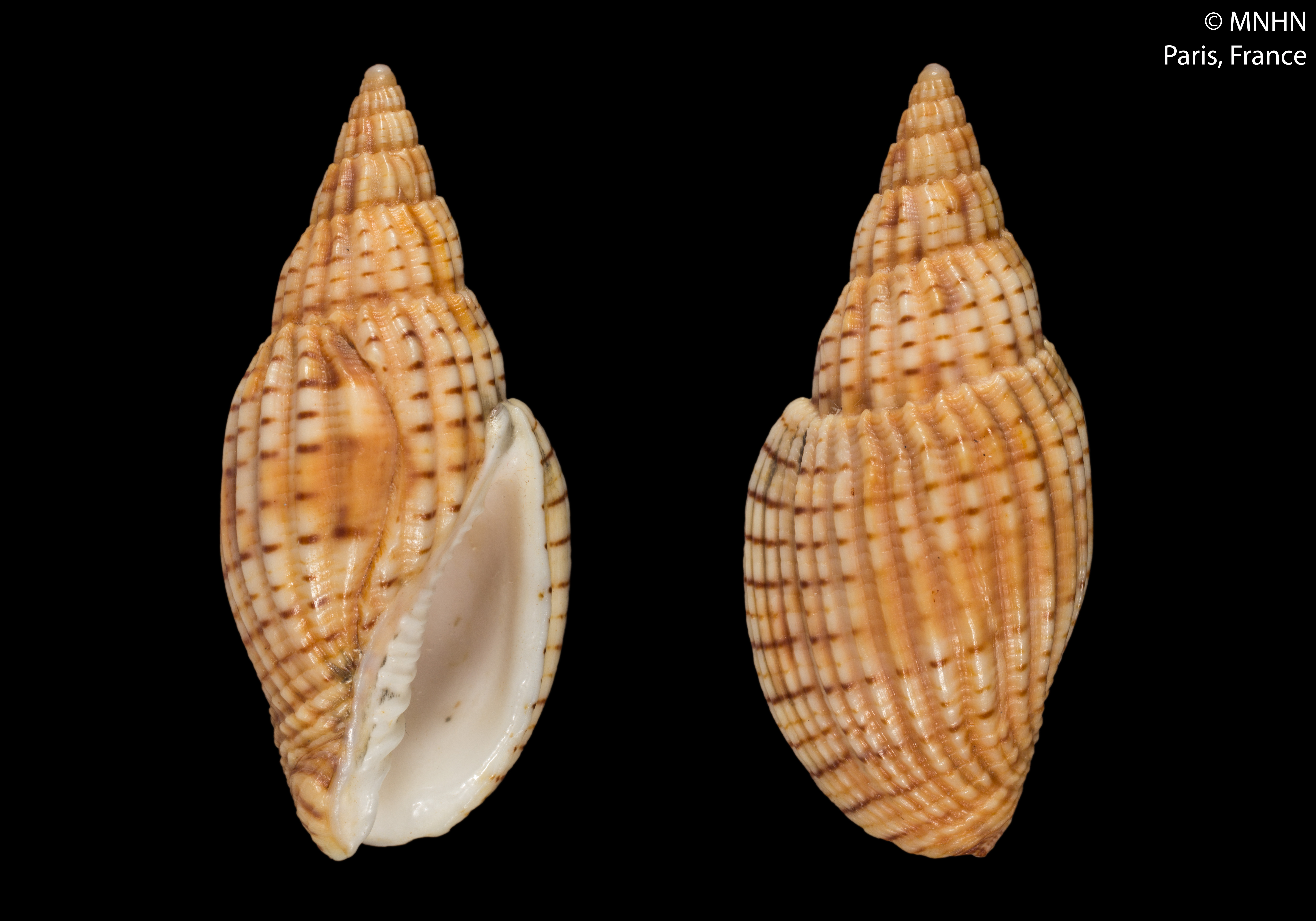 PRESERVED_SPECIMEN; Lyria (Indolyria) michardi Bail, 2009; Type status: HOLOTYPE; Identified by: N/A; Individual count: 1; Event date: N/A